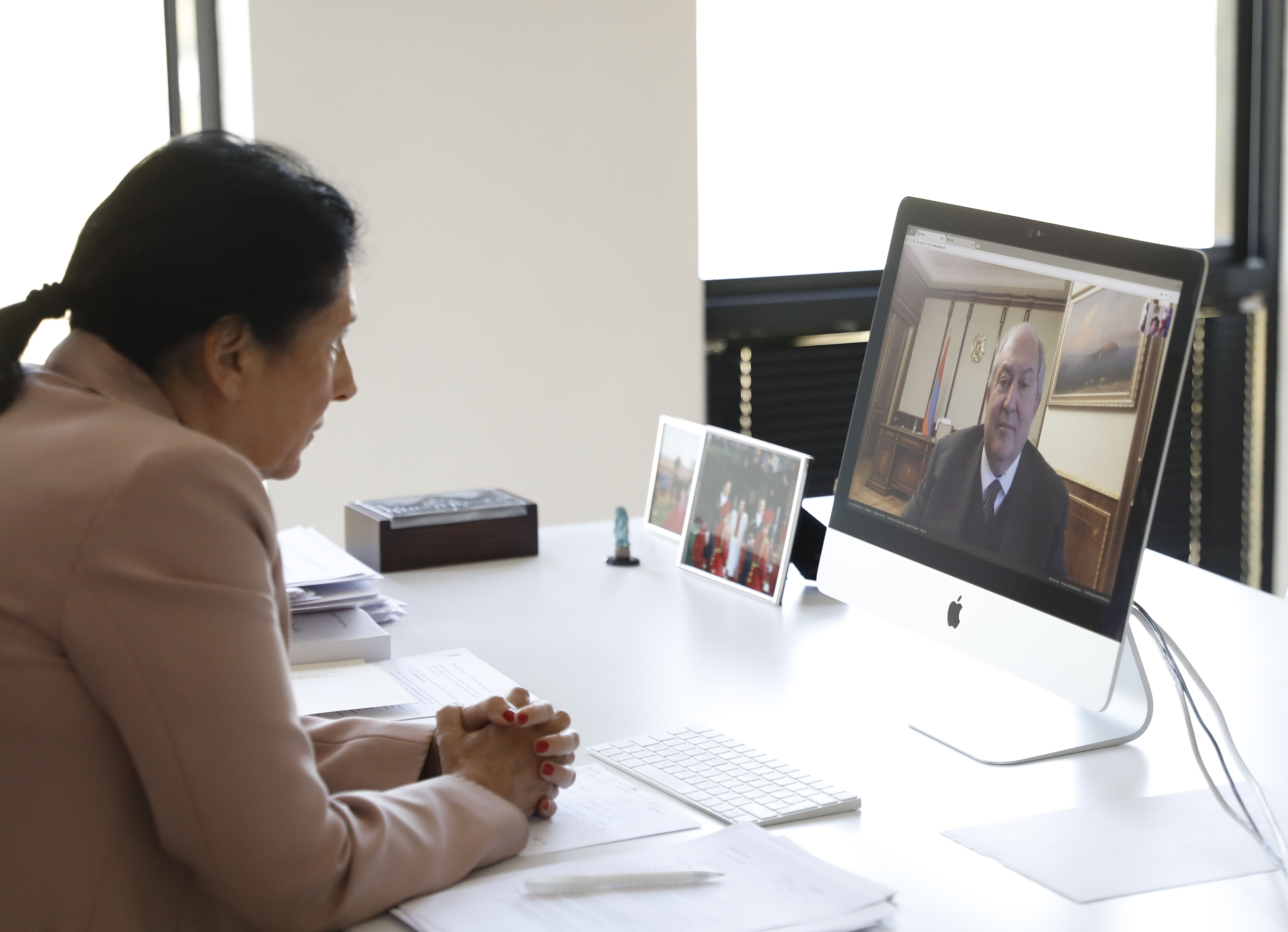 Georgian President Salome Zourabichvili discussing the COVID-19 pandemic with Armenian President Armen Sarkissian.